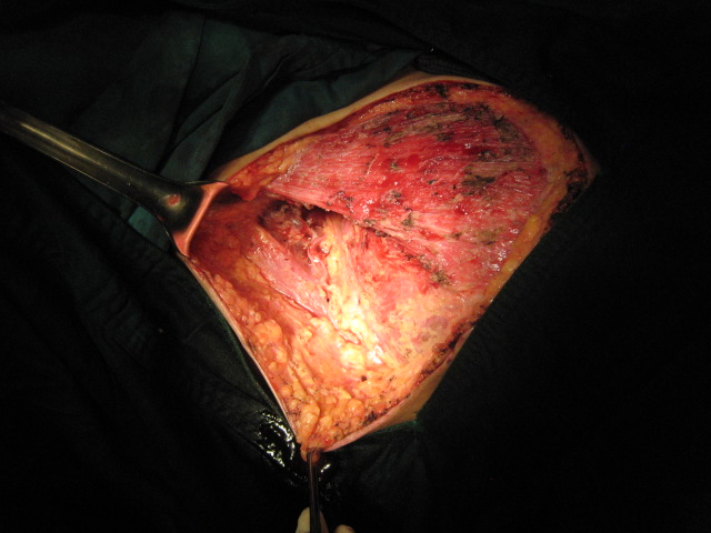 The surgeon must carefully identify the axillary vein and the important nerves found in the axilla during dissection (not shown in this photo)